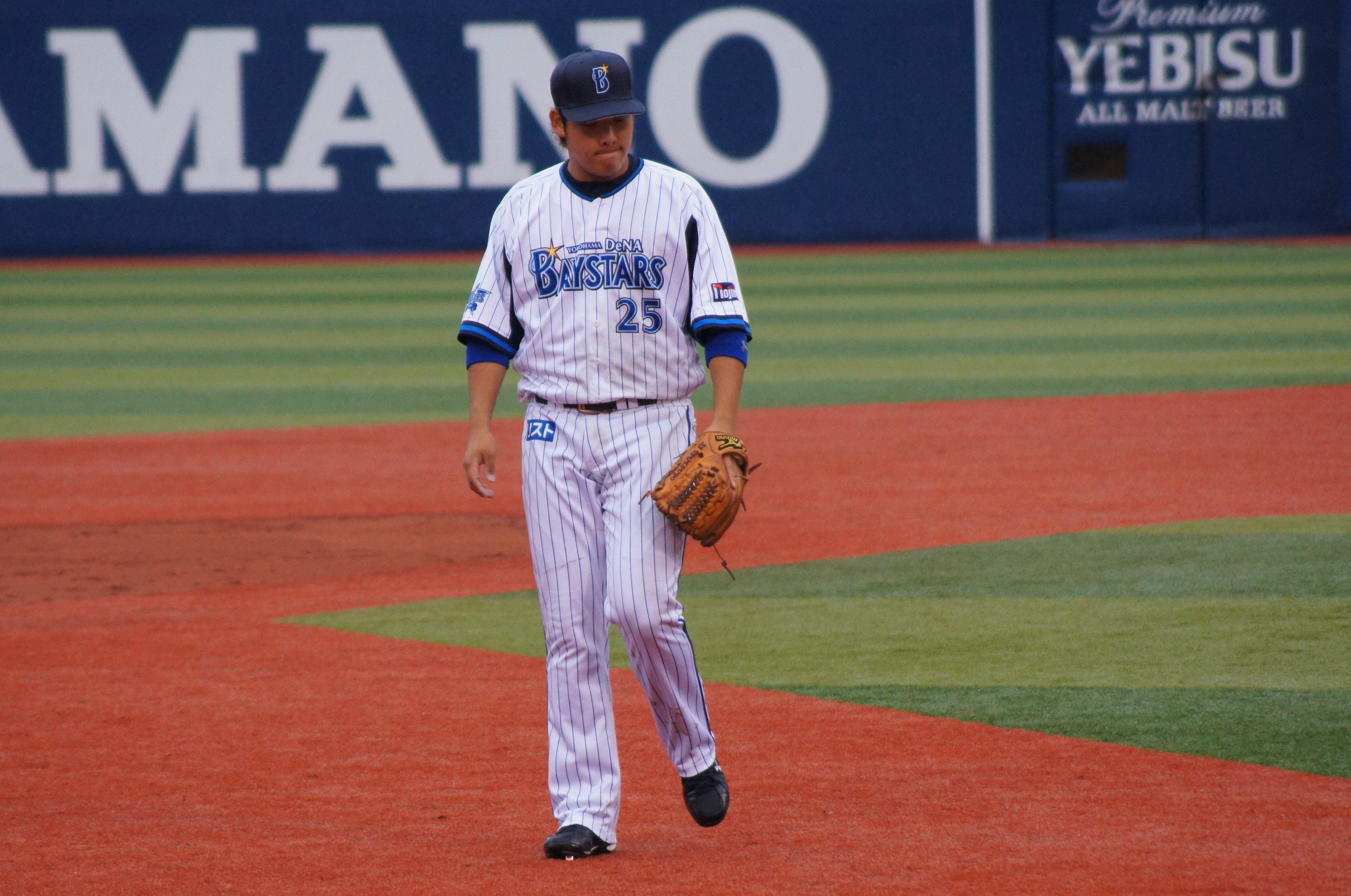 Yoshitomo Tsutsugo, infielder for the Yokohama DeNA BayStars, at Yokohama Stadium